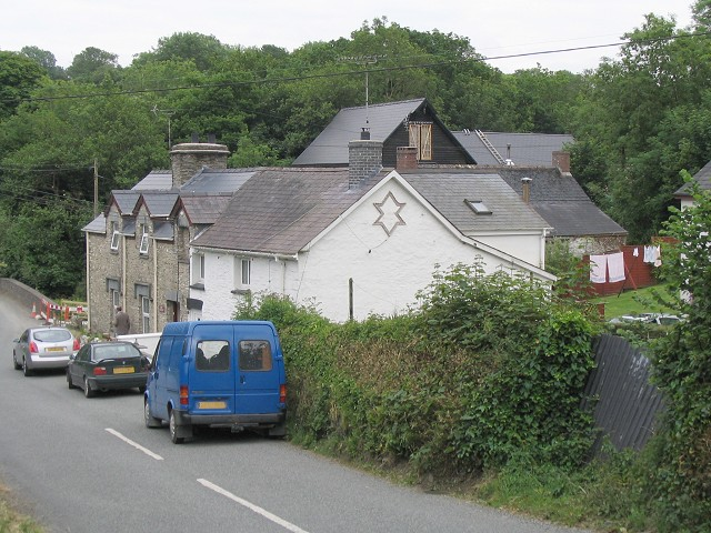 Star. A house bearing a star - in the village of Star